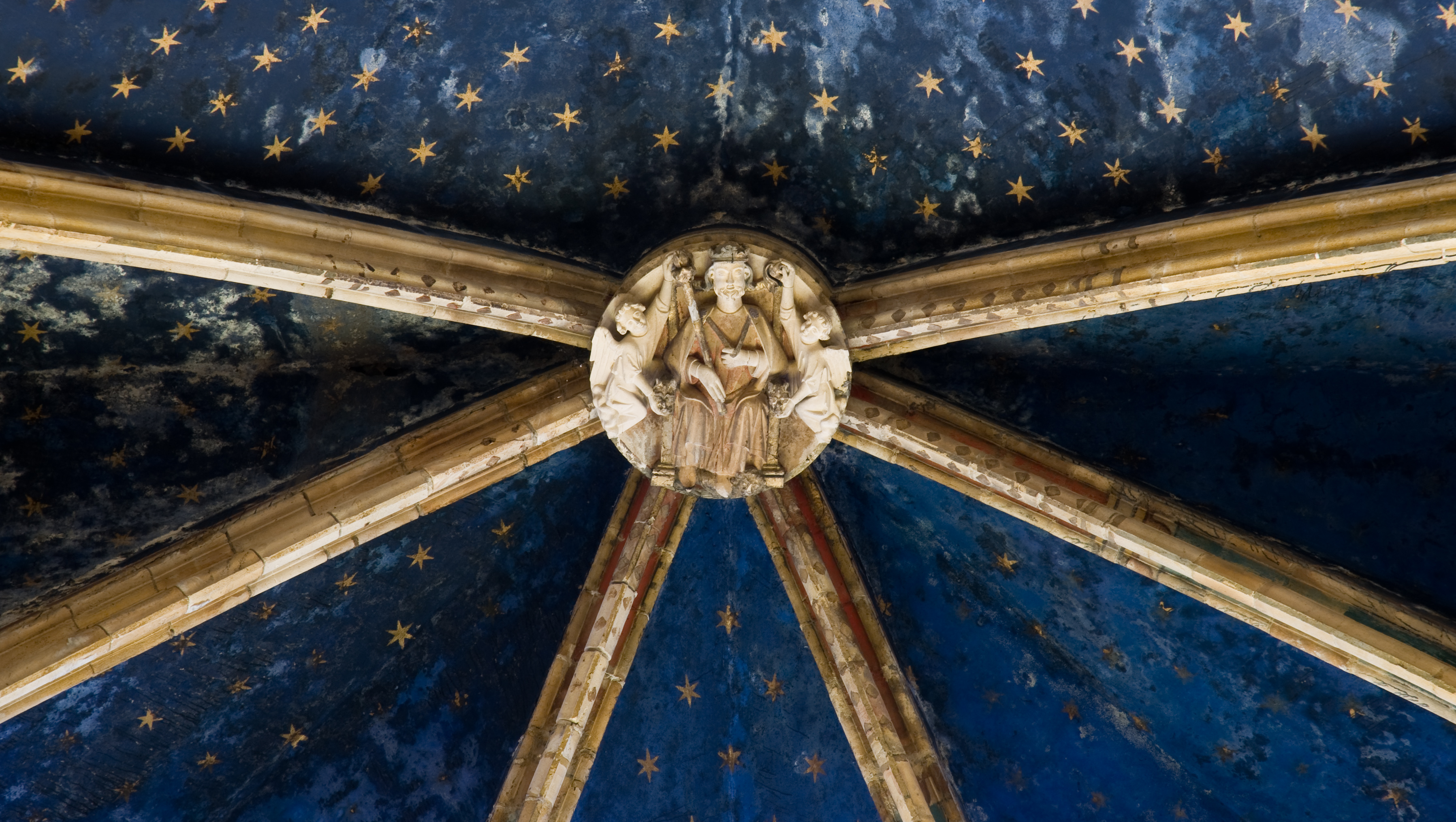 An keystone of an apse chapel (Toulouse Cathedral, France)